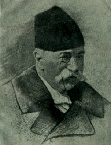 Photograph of the Romanian statesman Petre P. Carp, from a chromolithographed version.